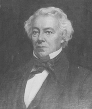 Portrait of Senator George Evans of Maine